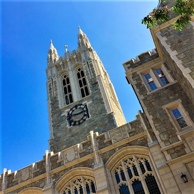 Gasson Tower